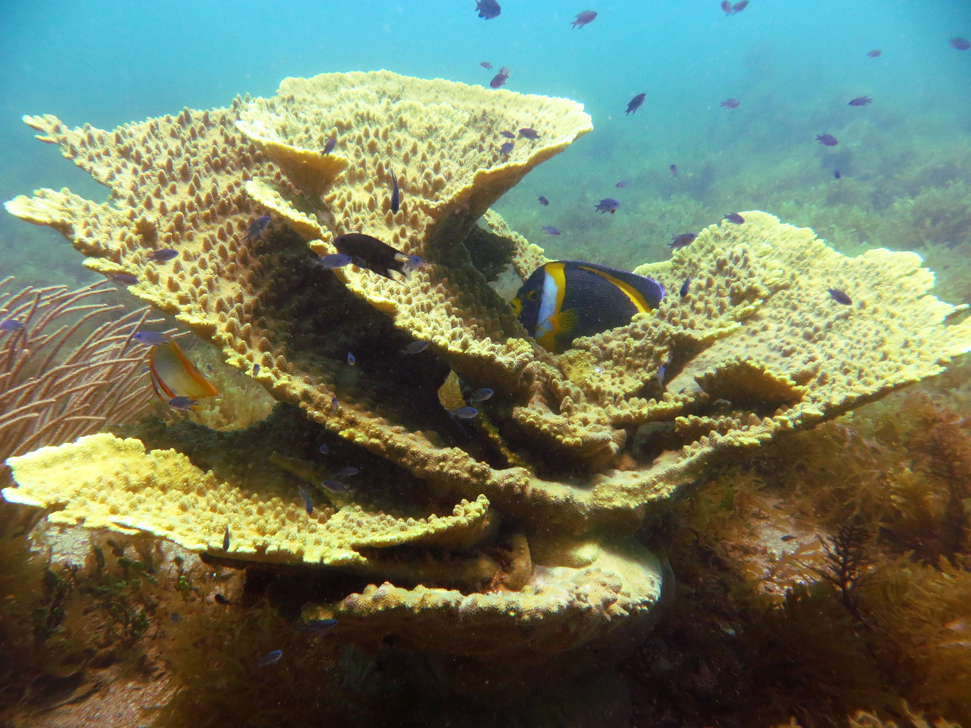 Acropora sp (A. solitaryensis?) with Chaetodontoplus duboulayi, greater specimen in the middle, Chelmon marginalis, greater specimen in the left, from the Pilbara region of Western Australia.